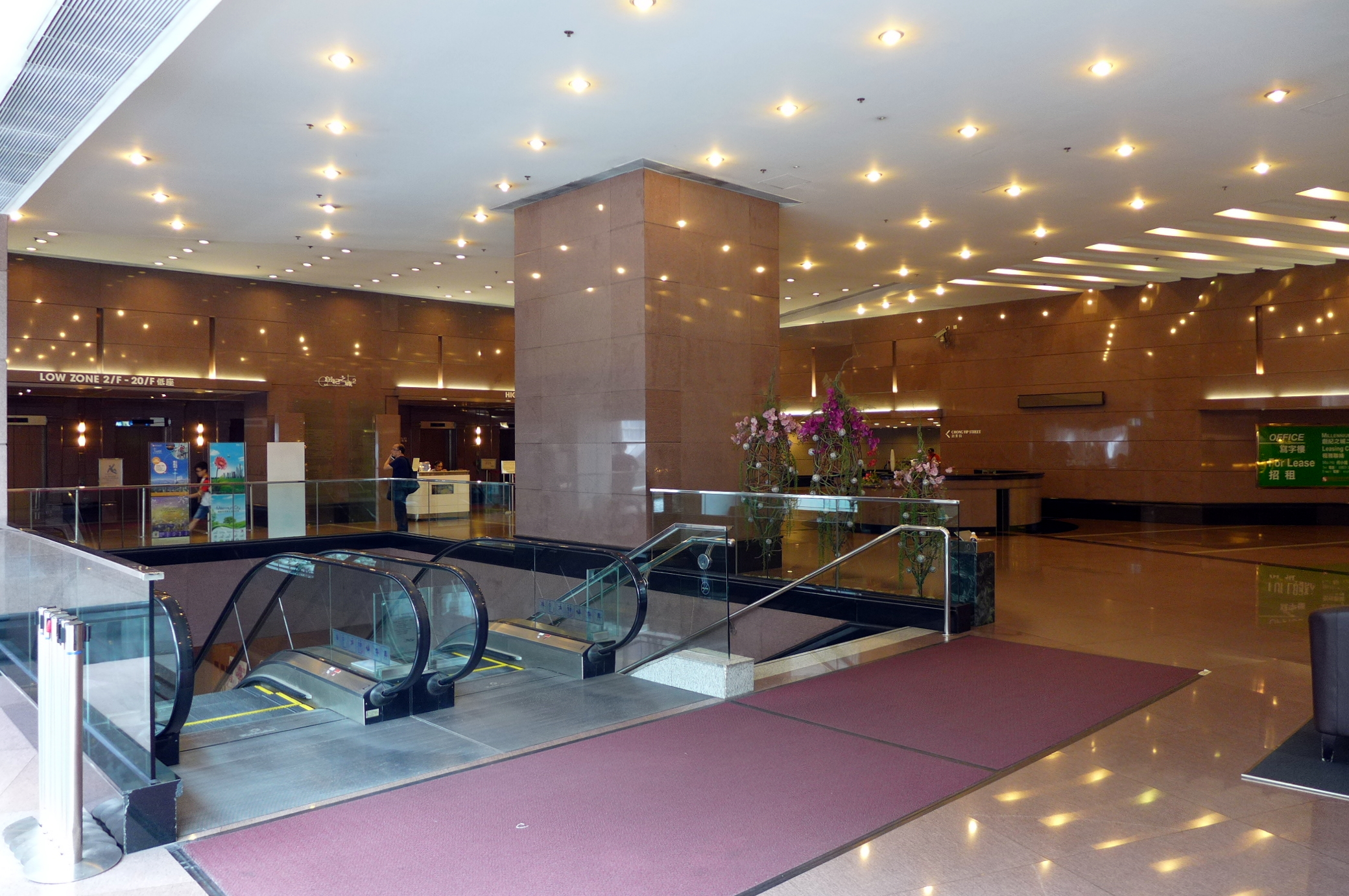 Millenium City 2 Lobby